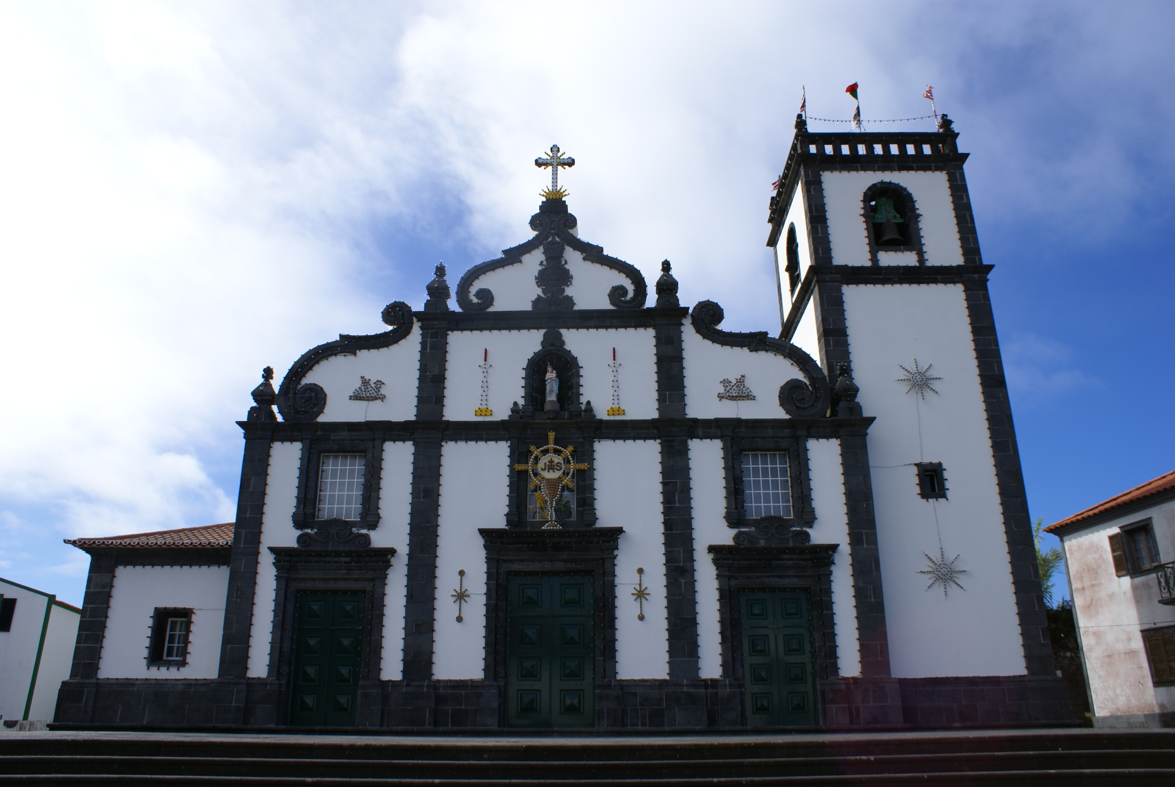 Façade of the Church of Nossa Senhora da Ajuda, Ajuda da Bretanha, Ponta Delgada, São Miguel(Azores), Portugal